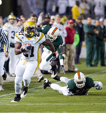 Jonathan Dwyer runs past Miami Hurricane defenders on Bobby Dodd field